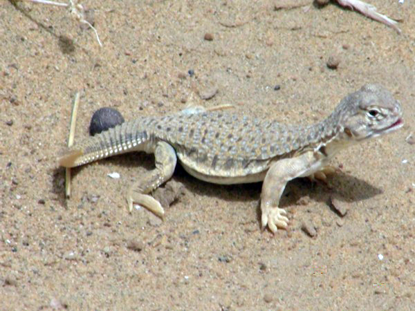 Spiny-tailed Lizard, Uromastyx hardwickii, Family Agamidae(Sauria). Photographed by Aashay Baindur on 11 Jun 2006 in Thar desert, Jaisalmer district, Rajasthan, India.